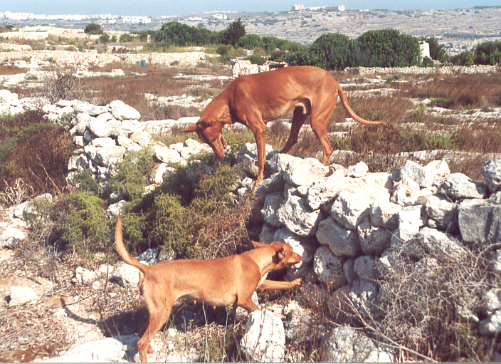 Description: Klieb-tal Fenek (Pharaoh Hounds according to FCI nomenclature), hunting for rabbits in a rubble stone wall in Malta. author (photographer): photo taken by myself in Malta, August 2000 --Jan Eduard 18:18, 20 July 2006 (UTC)